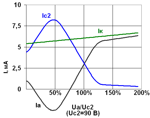 Plate current vs voltage curve of an early tetrode vacuum tube, an RCA 24A from 1930 or earlier, showing region of negative slope (negative differential resistance) used in dynatron oscillators. When electrons from the cathode strike the plate, they can knock other electrons out of it which are attracted to the high potential on the screen grid. Due to this secondary emission of electrons, the plate current can actually decrease with an increase in plate voltage. This negative resistance is used in the dynatron oscillator circuit to create oscillations in a tuned circuit. Modern tetrodes have their plate treated to inhibit secondary emission, so they don't have this negative resistance region. Ik is cathode current Ia is plate (anode) current Ic2 is screen grid current Ua is plate voltage Uc2 is screen grid voltage The horizontal axis is ratio of screen voltage to plate voltage. It can be seen the negative resistance only occurs when the screen grid is at a significantly higher potential than the plate, to attract the secondary electrons away from the plate.